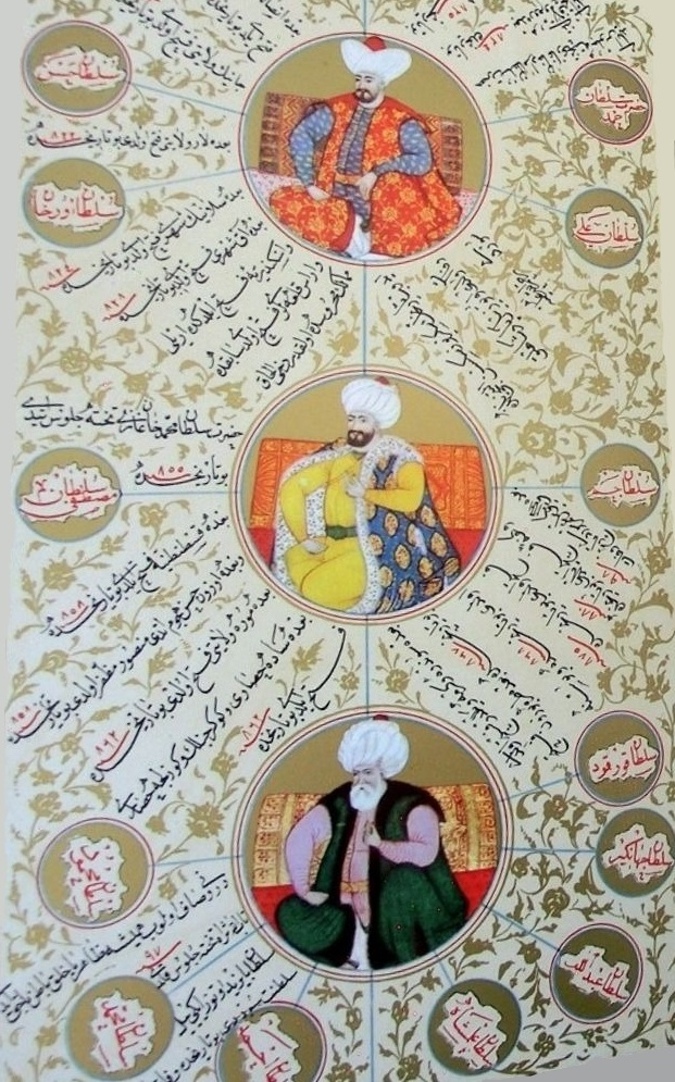 A work in Ottoman Turkish delineating the genealogy of the Ottoman Sultans, from Adam, the first human being and prophet, to Sultan Mehmed IV (d. 1687).